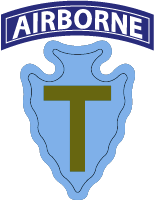 36th Airborne Brigade patch